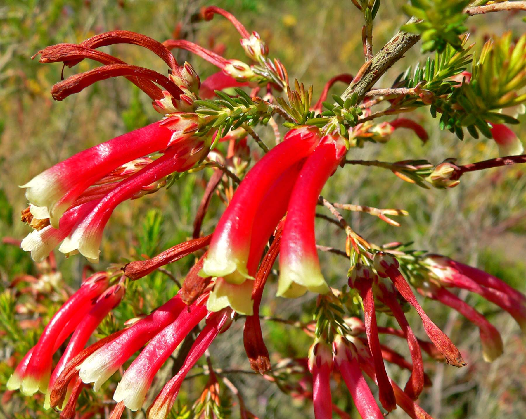 Photo of Erica versicolor at the San Francisco Botanical Garden